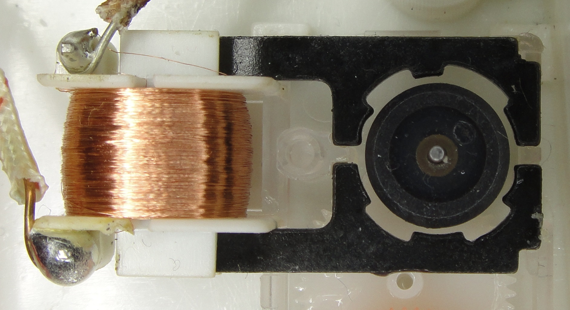 Single phase low power synchronous motor part of the synchronous electric clock mechanism built in a mechanical time switch, running at 14 volt and 50 Hertz consuming 4 milliampere. The rotor is made of a permanent magnet with a gear wheel glued on (on the back). The coil's magnetic poles of the metal stator have 3 teeth and 2 gaps as a replacement of 2 complementary poles. That design results in 5 pairs of poles. The permanent magnetic rotor has matching 5 pairs of poles. The revolution of the rotor is fixed 600 revs (50 Hz * 60 s / 5 pole pairs). The upper cover was removed for taking the photo.